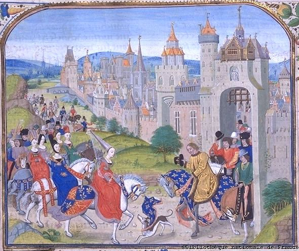 Isabella of France welcomed to Paris